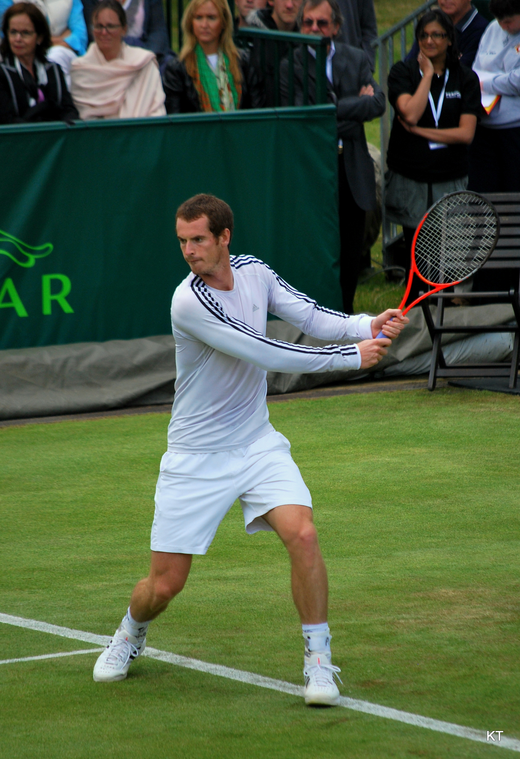 The Boodles, Stoke Park 2012.